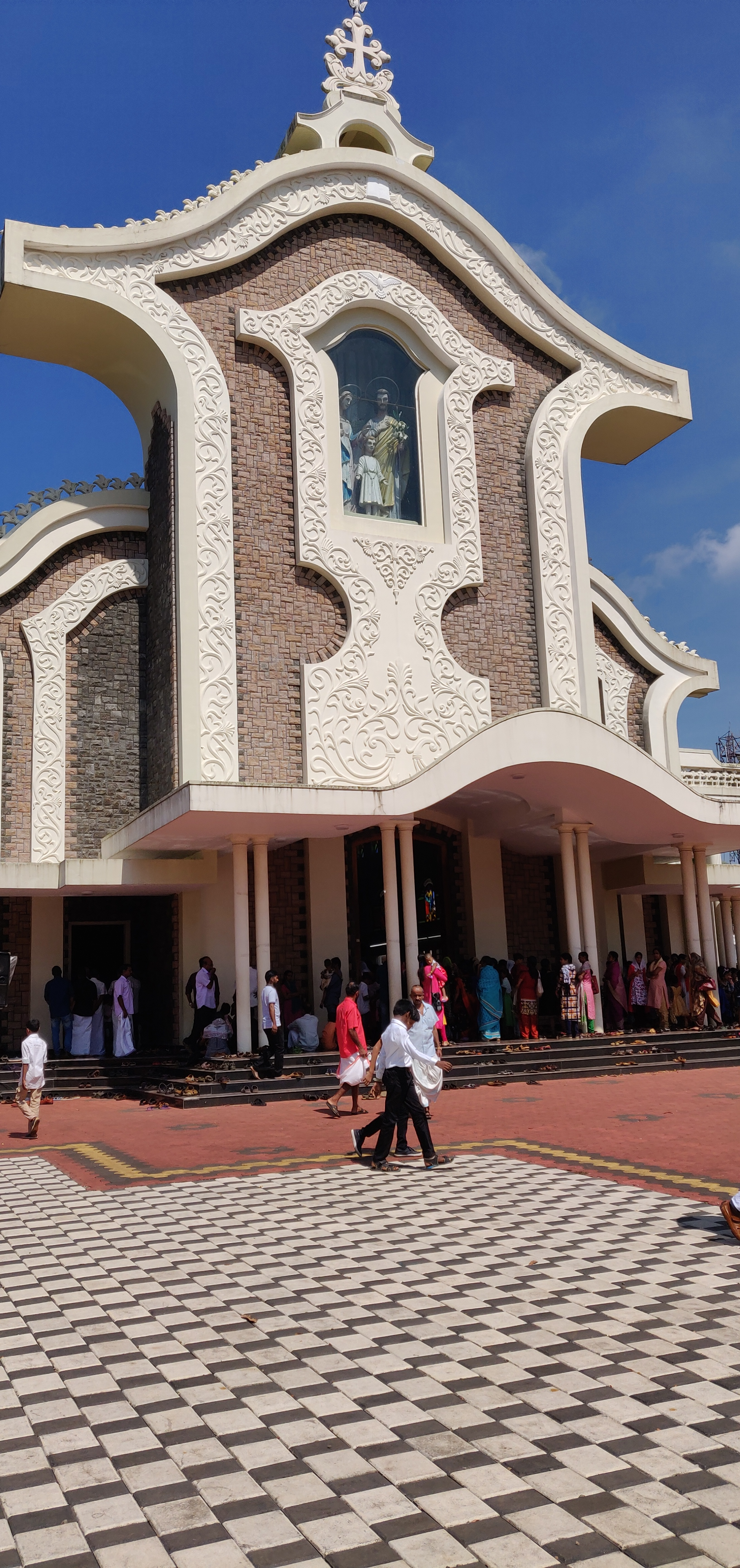 Facade of the Holy Family Syro-Malabar Roman Catholic Forane Church, Ponkunnam, Kerala, India